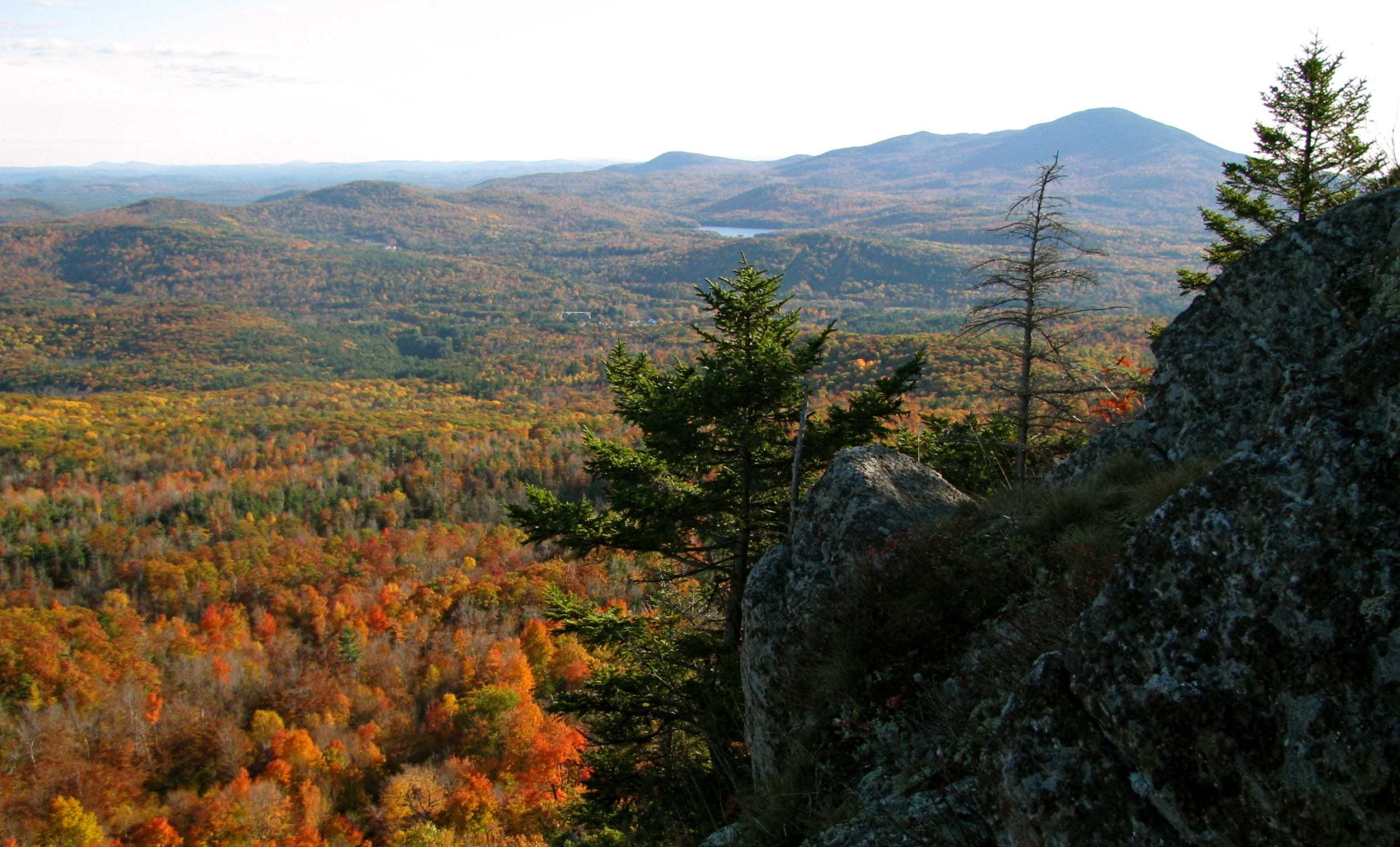 A view of the north side of Mount Kearsarge (New Hampshire) from The Bulkhead on Ragged Mountain